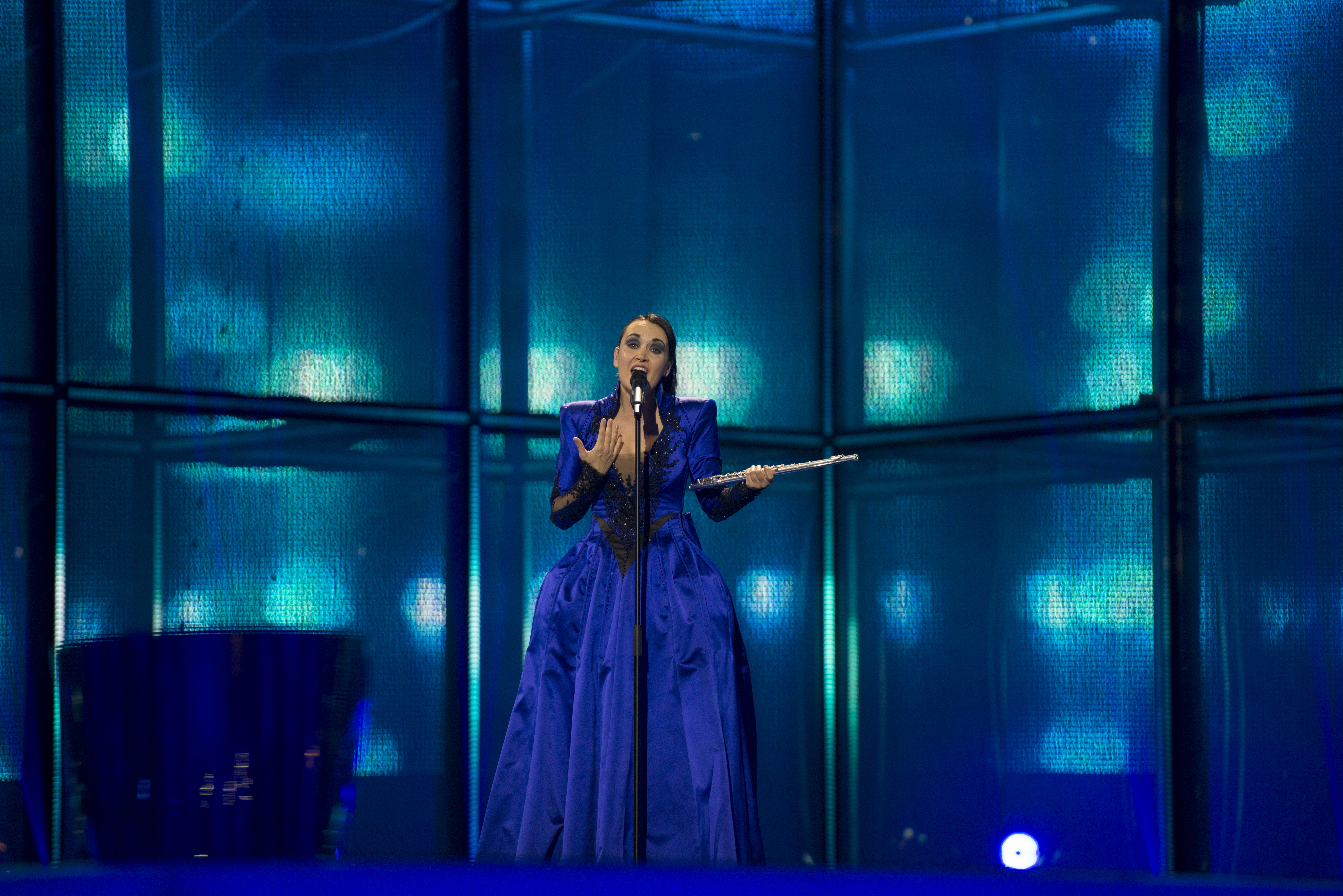 Tinkara Kovač representing Slovenia with the song "Spet (Round and Round)" during the first dress rehearsal of the second semi final of the Eurovision Song Contest 2014 Copenhagen. (Help translate this text)